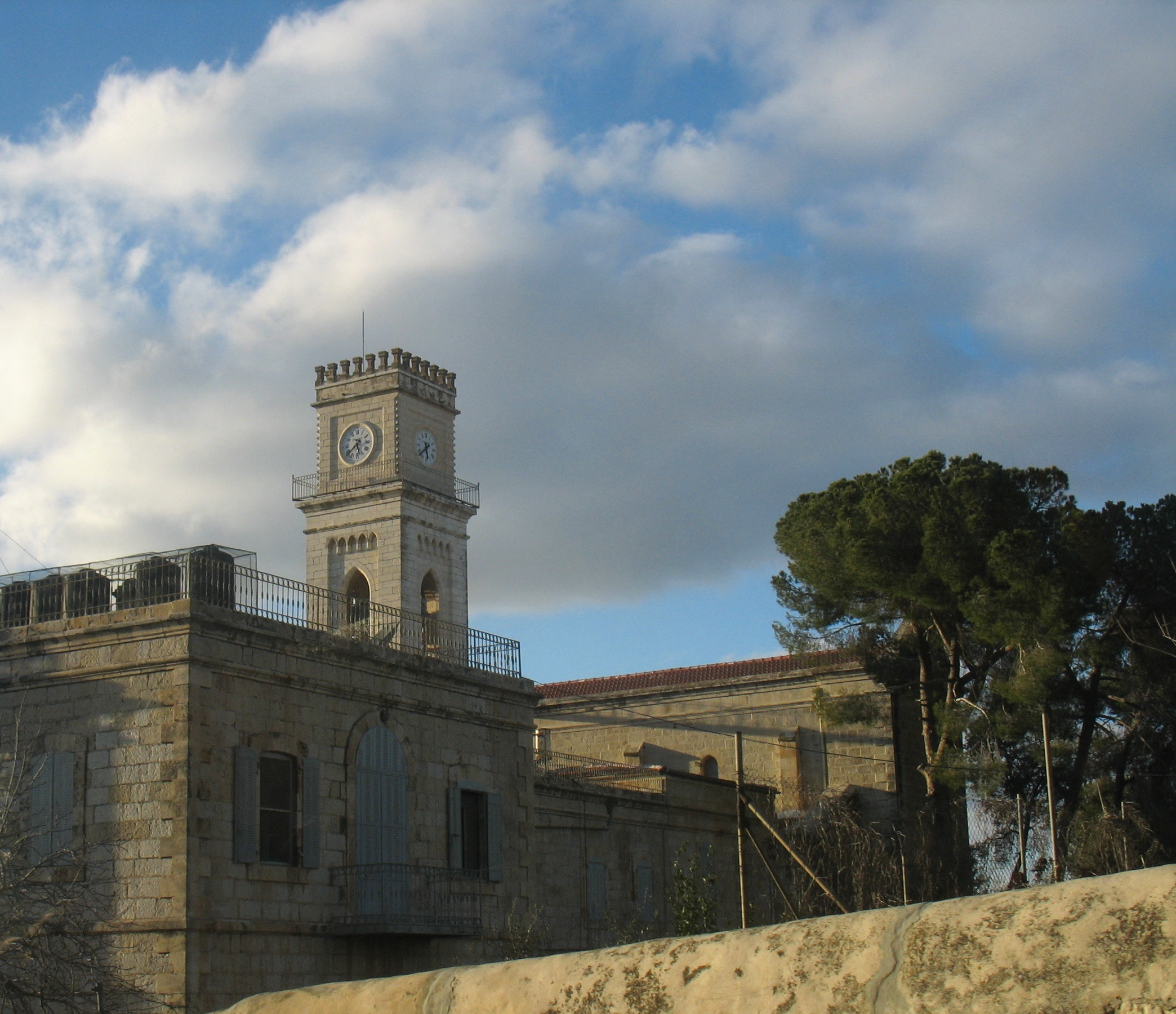 Franciscan church in Qubeibe.